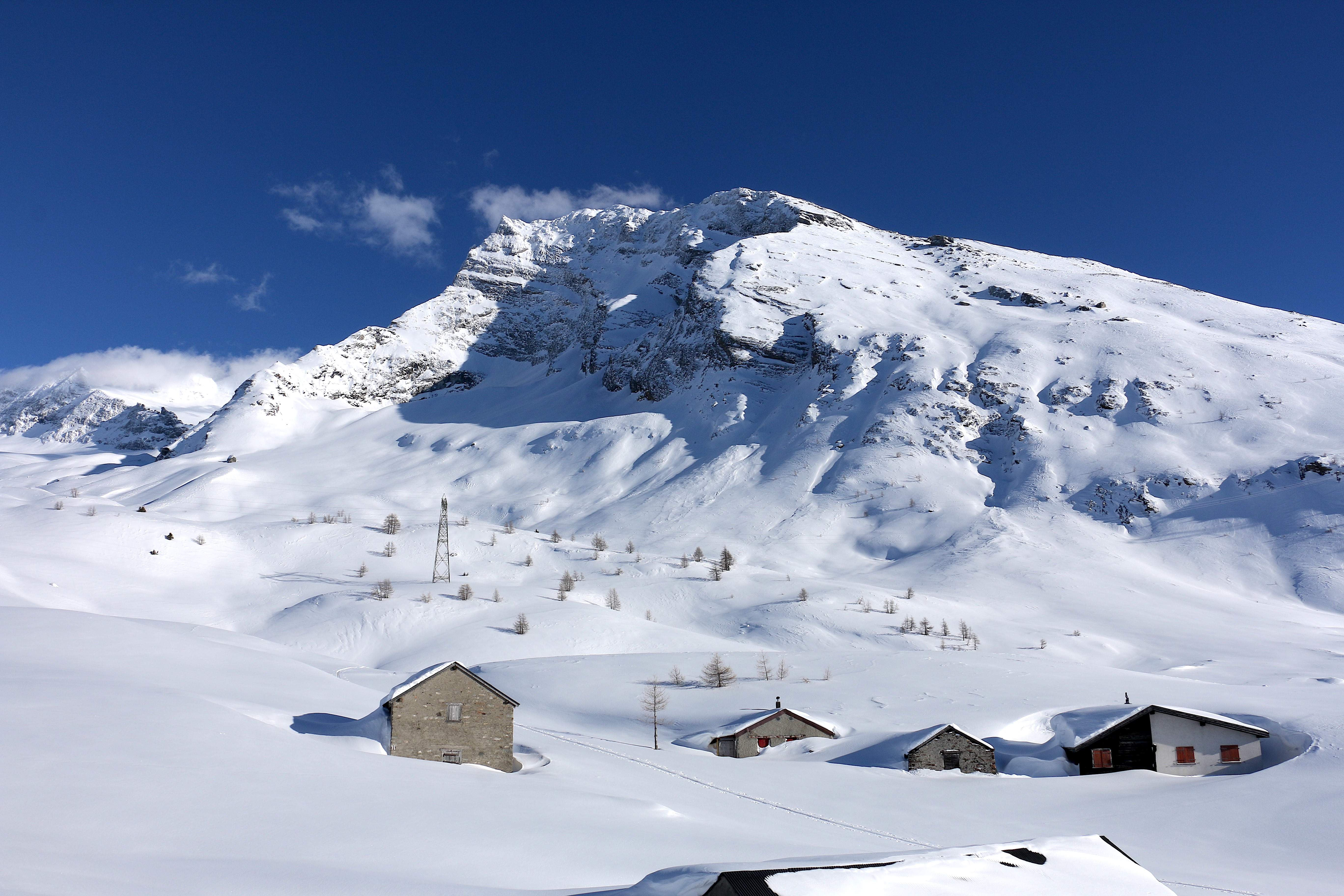 Hübschhorn seen from Simplonpass (2017)